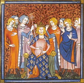 Coronation of Louis V the Indolent of France. (British Library, Royal 16 G VI f. 257v)